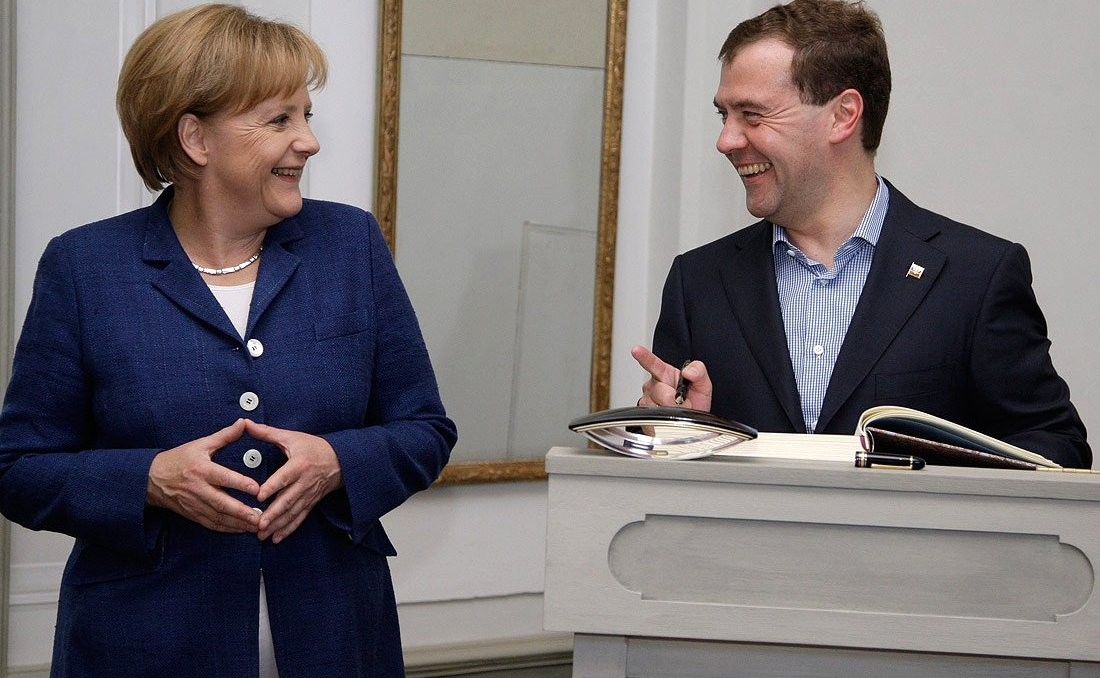 With Federal Chancellor Angela Merkel.